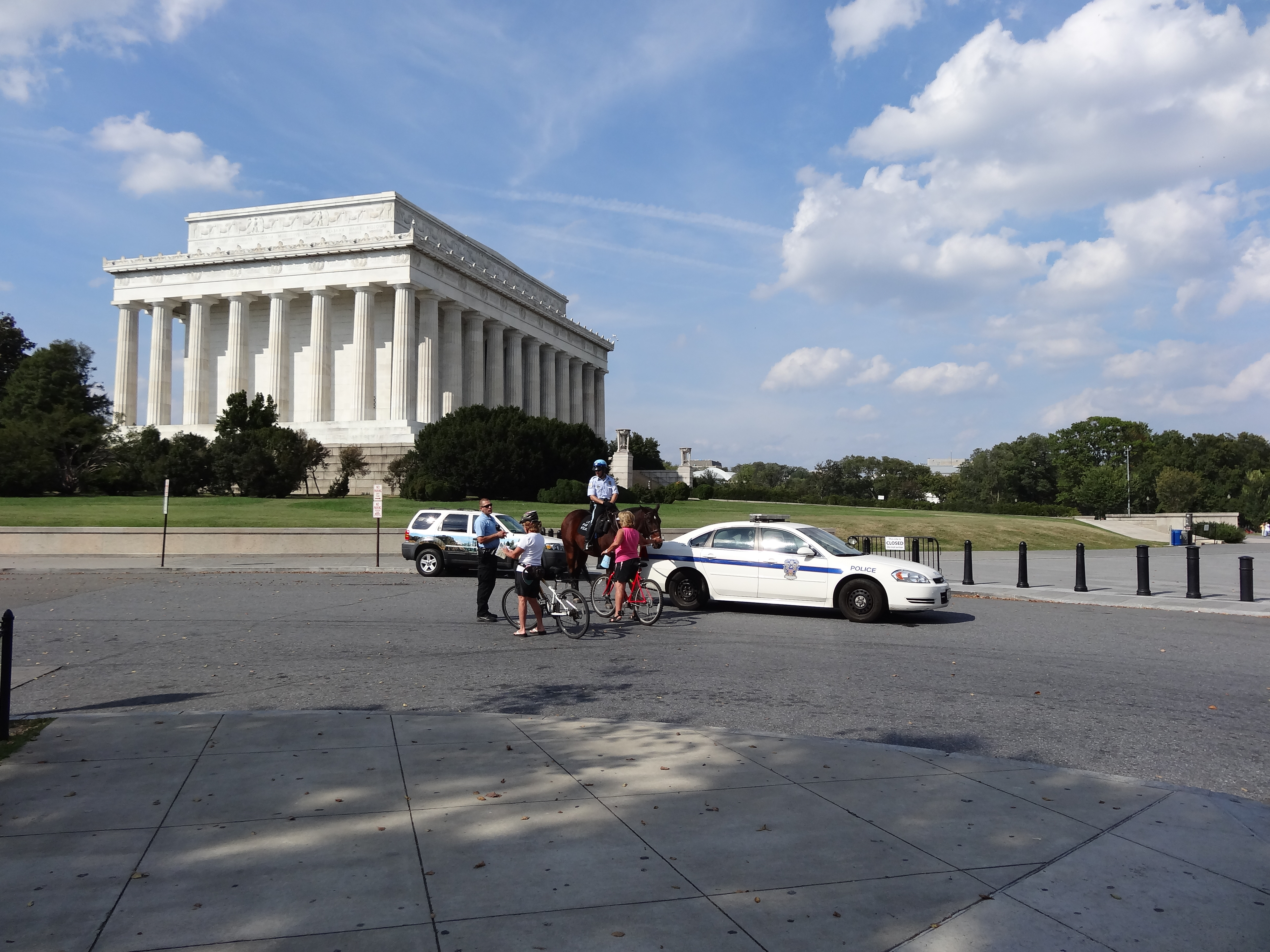 US Park Police aiding tourists at the Lincoln Memorial in Washington, DC. The memorial was closed during the US government shutdown of 2013.